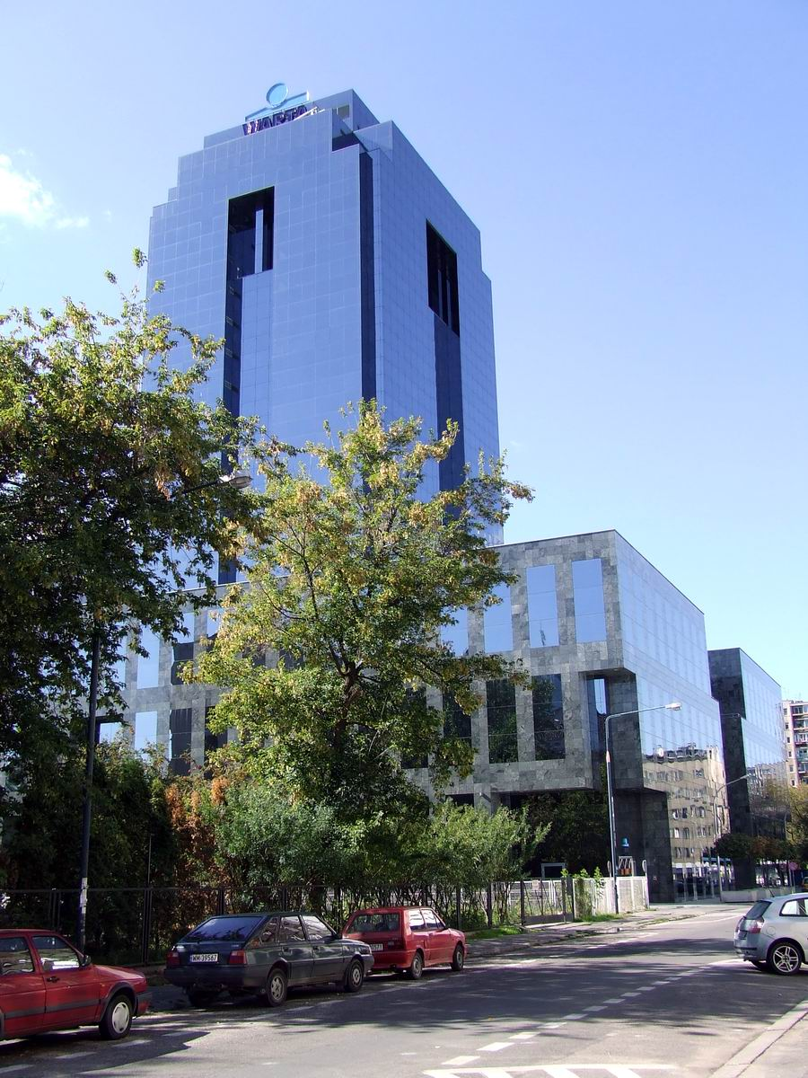 Warta Tower in Warsaw